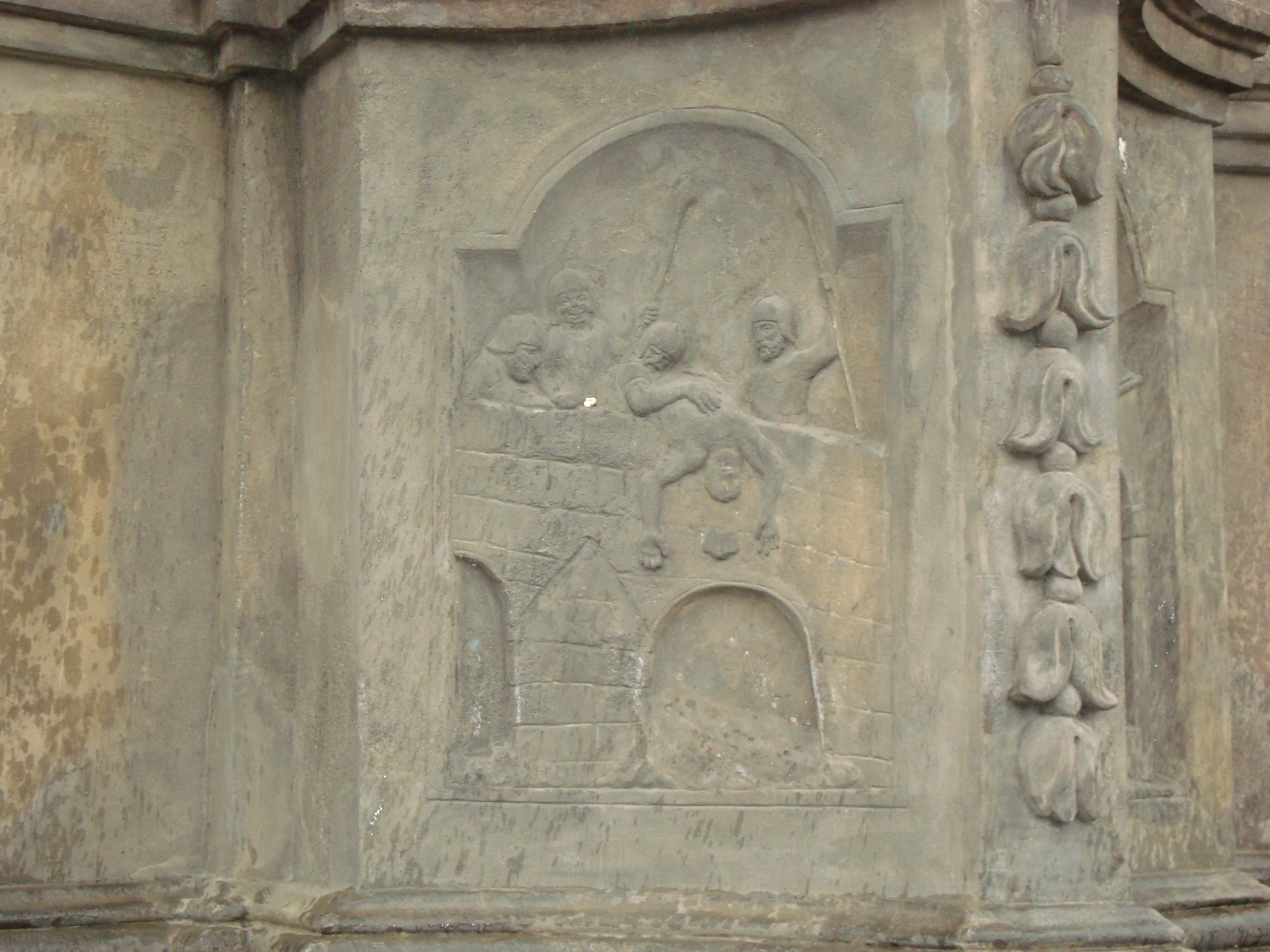 Martyrdom of St John Nepomucene, relief detail from pedestal of sculptural group on the Staroměstský most (Staré Město Bridge) over the Ploučnice River in Děčín, by Michal Jan Josef Brokoff (1714).